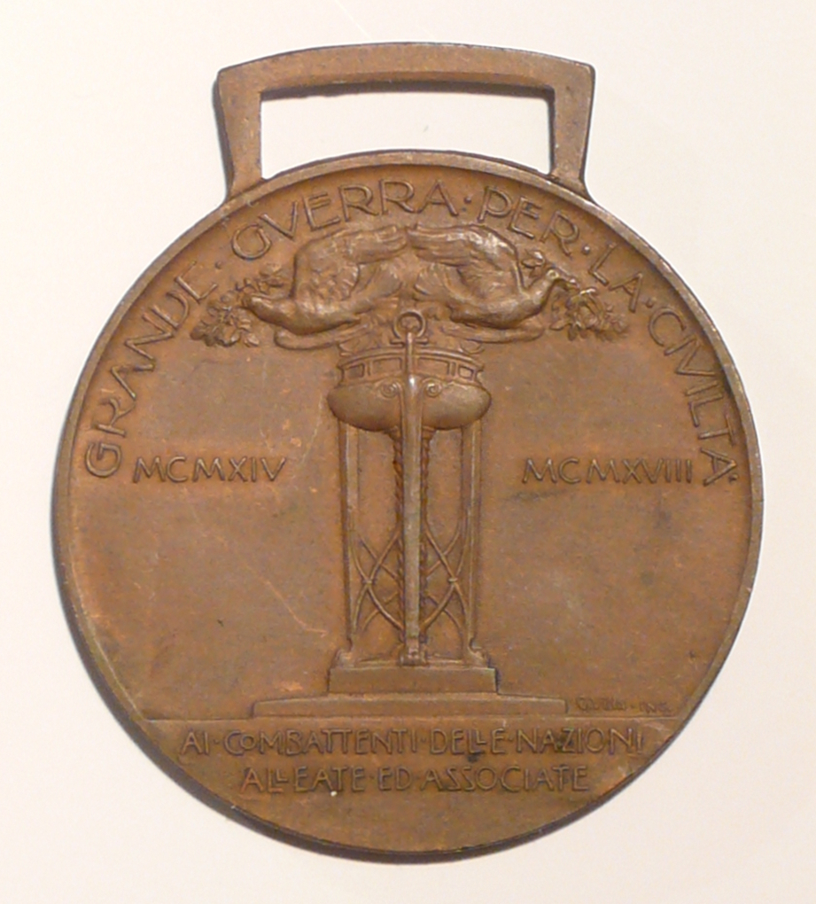 Interallied Victory Medal WWI - Italy